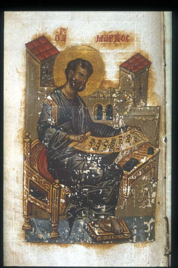 Folio 117 verso of the codex, portrait of Mark Evangelist